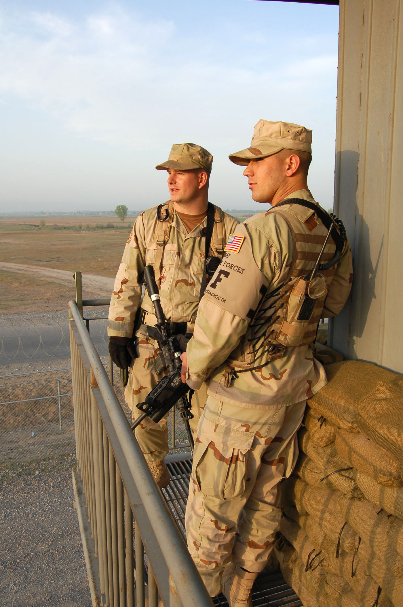 Security forces demonstrate skills: Staff Sergeant David Hoy and Senior Airman Jacob Medina survey the installation perimeter at Manas Air Base, Kyrgyzstan, on Wednesday, April 19, 2006. They are assigned to the 376th Expeditionary Security Forces Squadron.